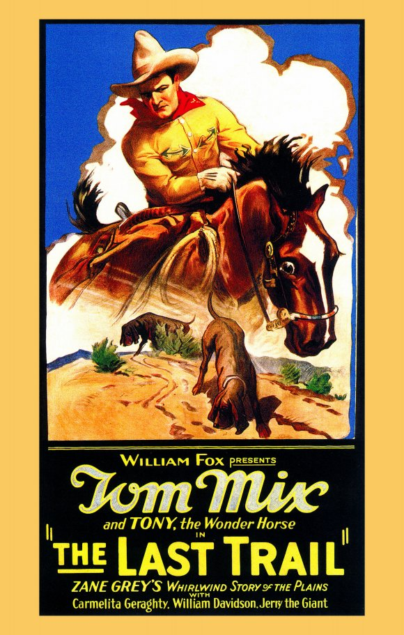 This is a poster for the 1927 American silent Western film The Last Trail.